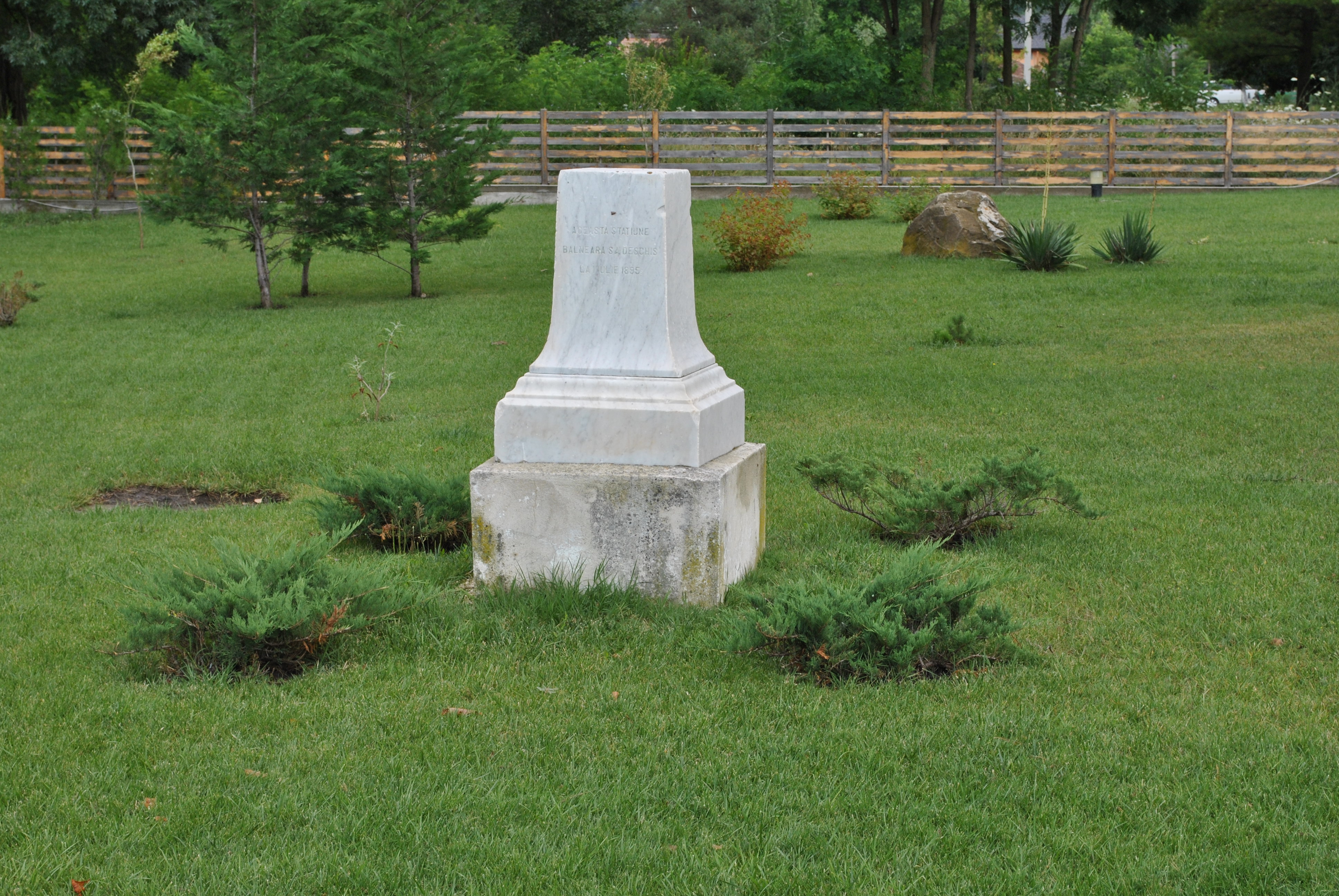 A monument to comemorate the opening of the Monteoru resort, July 1st 1885, in Sărata-Moneoru, Buzău County, RomaniaRomână: Monument în amintirea deschiderii staţiunii Monteoru la 1 iulie 1885, la Sărata-Monteoru, judeţul Buzău, România